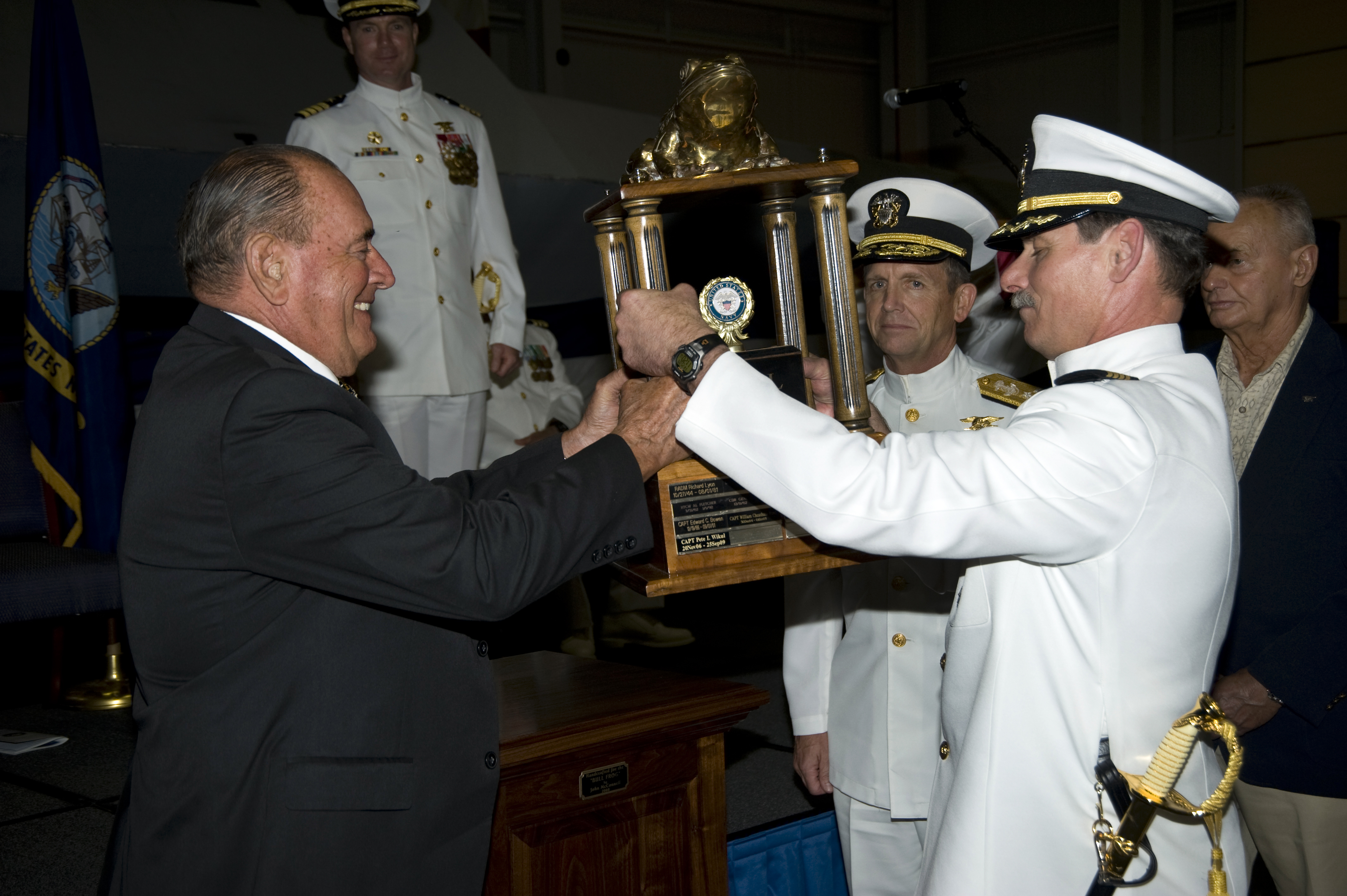 LITTLE CREEK, Va. (Sept. 25, 2009) Retired Rear Adm. Dick Lyon, the first Bullfrog, left, passes the Bullfrog trophy to Capt. Pete Wikul, the 13th Bullfrog, during the passing of the Bullfrog ceremony. Wikul is retiring as the last remaining Underwater Demolition Team/SEAL. The title Bullfrog recognizes the UDT/SEAL operator with the greatest amount of cumulative service. Wikul is retiring after 39 years and 4 months of Navy service. (U.S. Navy photo by Mass Communication Specialist 2nd Class Joshua T. Rodriguez/Released)